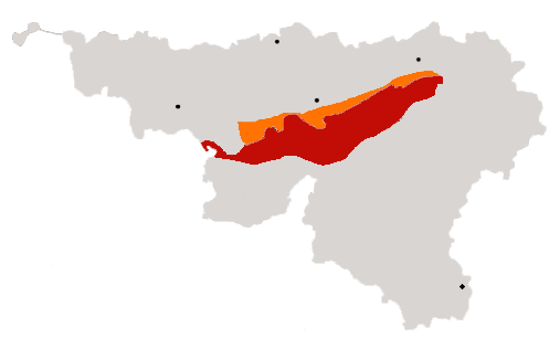 Map of Condroz (in red) and Ardenne condrusienne (in orange).